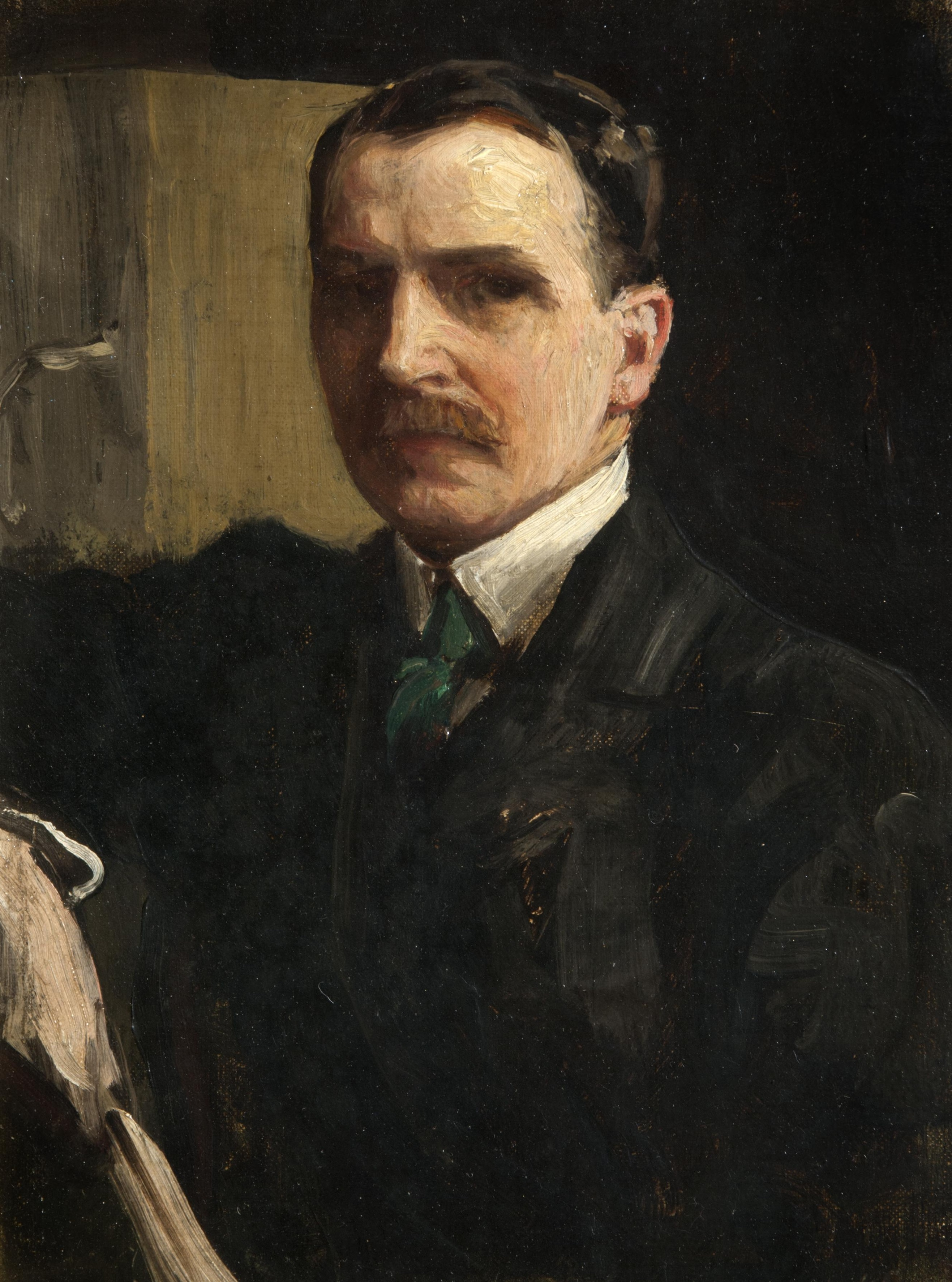 Guthrie was the leading member of the Glasgow Boys, the group of artists inspired by French realist painting who challenged the conservative and Edinburgh-run Royal Scottish Academy. Like so many rebels, Guthrie in time became a pillar of the establishment himself; an orthodox society portrait painter and the President of the Academy he had earlier challenged.